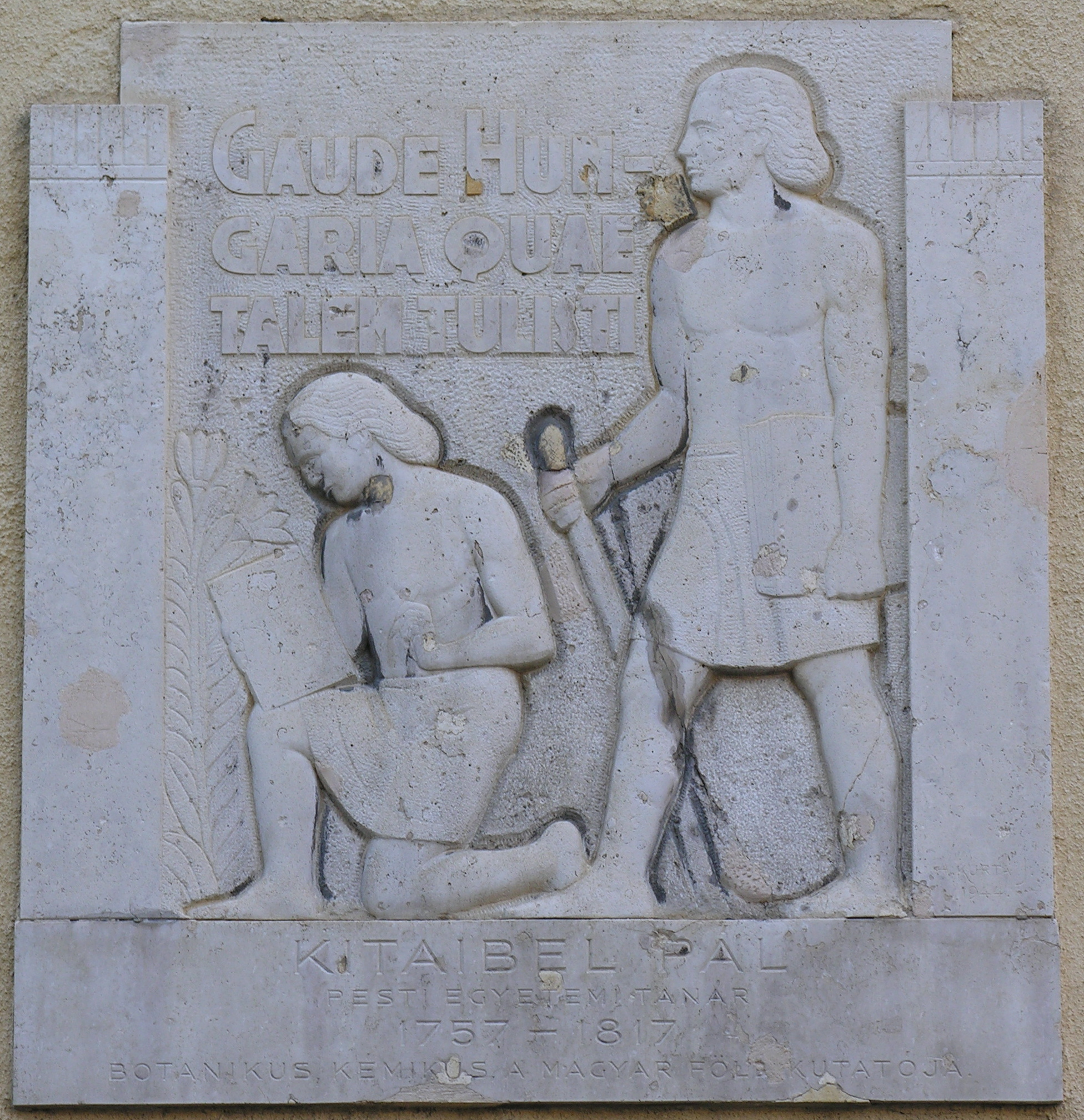 Commemorative plaque of Pál Kitaibel in Budapest District II, Kitaibel Pál Street No 1